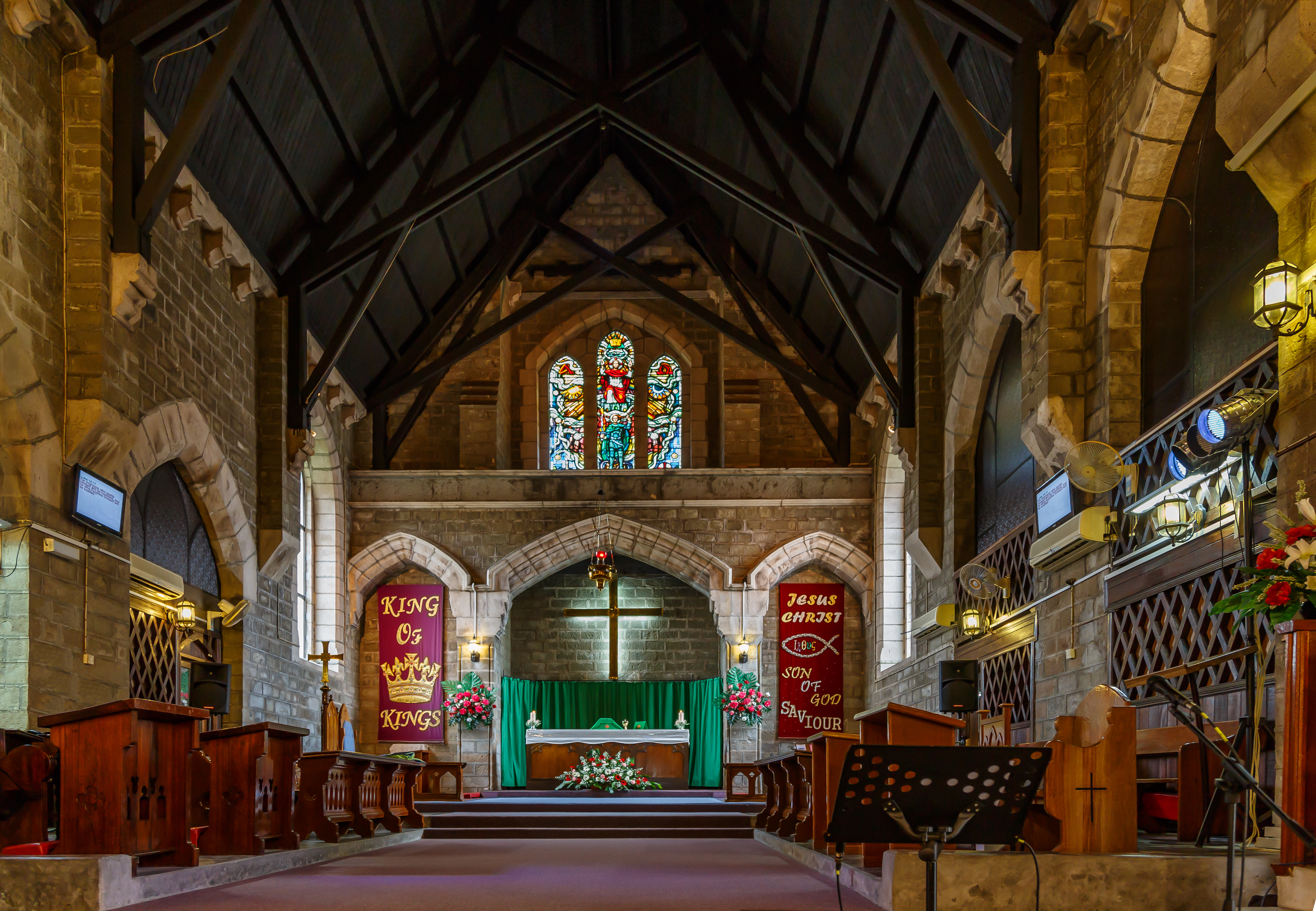 Sandakan, Sabah: Gereja St. Michael in Sandakan